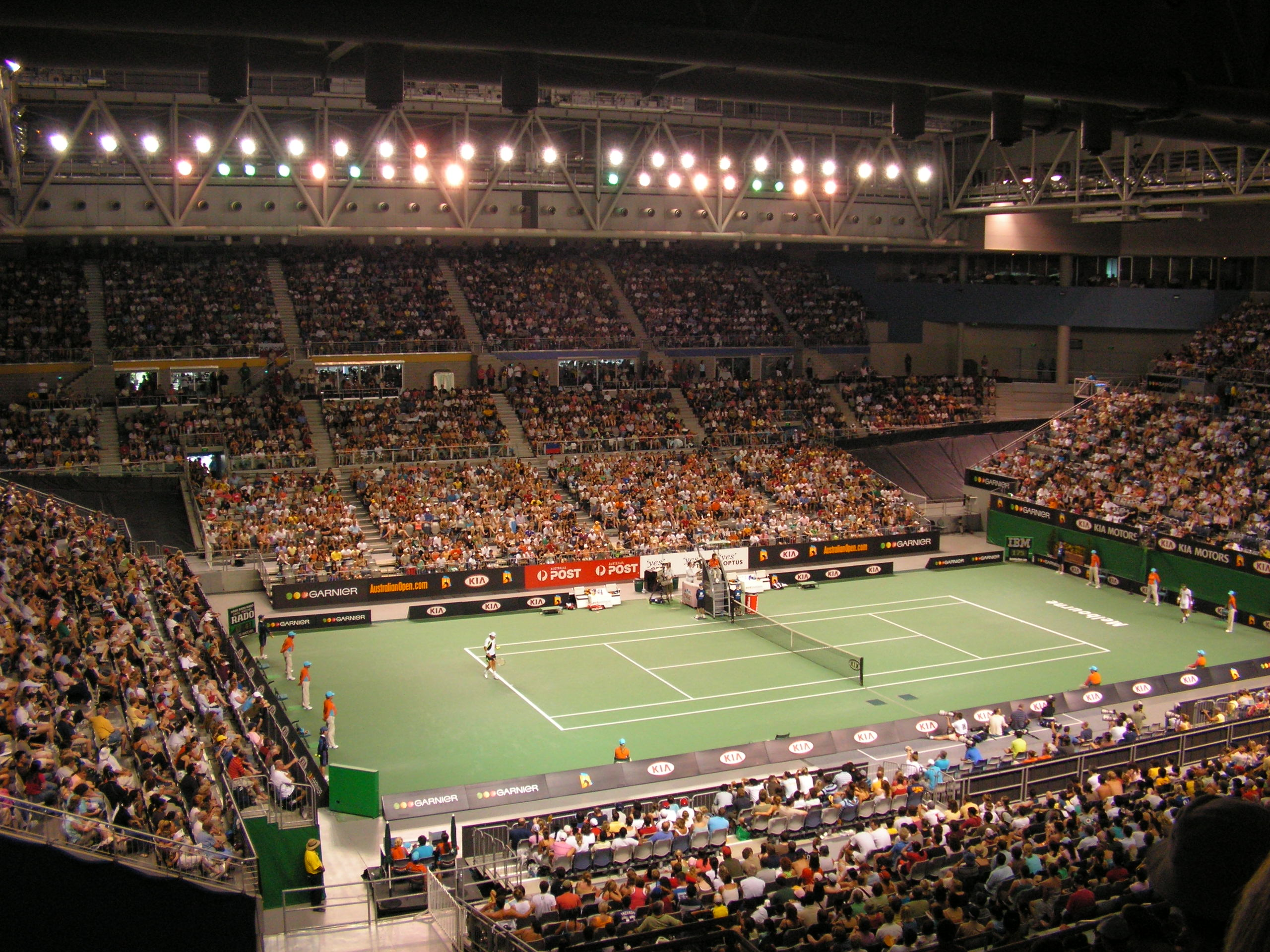 Australian Open 2006 - Day 6 Women's Singles - Round 3 Kim Clijsters vs Roberta Vinci Vodafone Arena Category:Images of buildings and structures in Melbourne